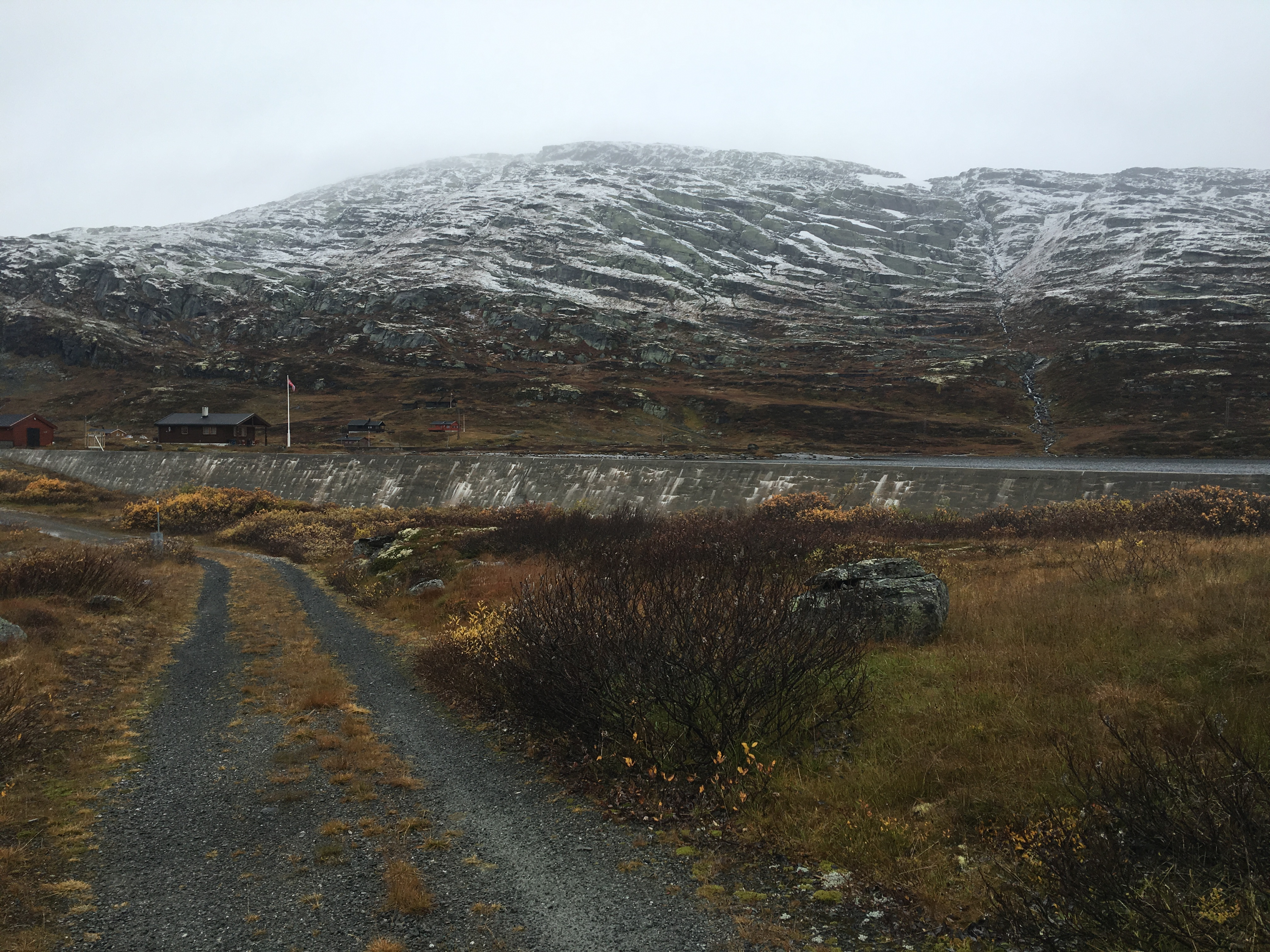 Tyin Dam / Power Plant at the Tyin Lake, Norway